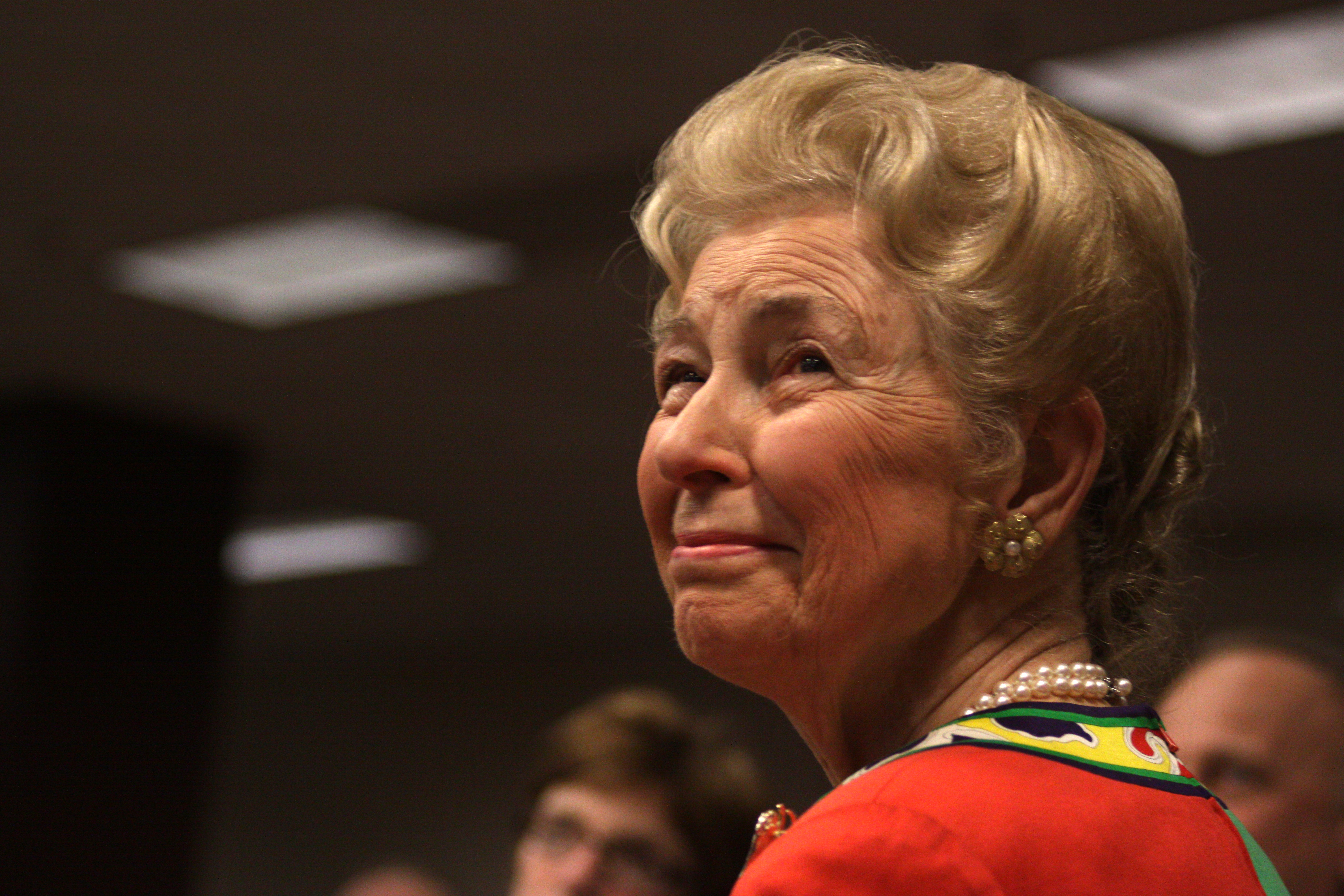 Phyllis Schlafly speaking at an event in Des Moines, Iowa.